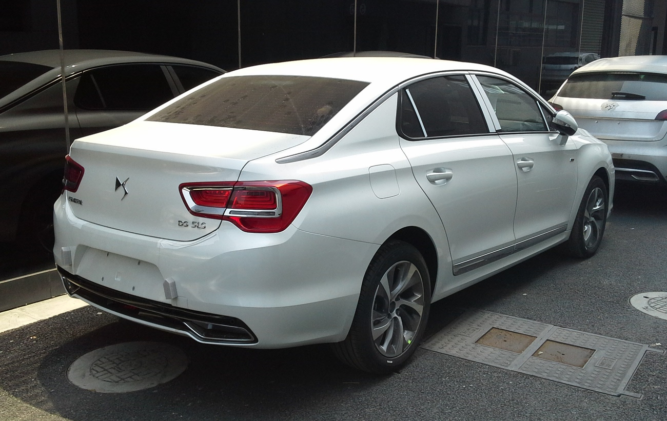 DS 5LS photographed in Shanghai, China.